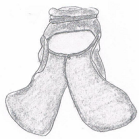 To Kin